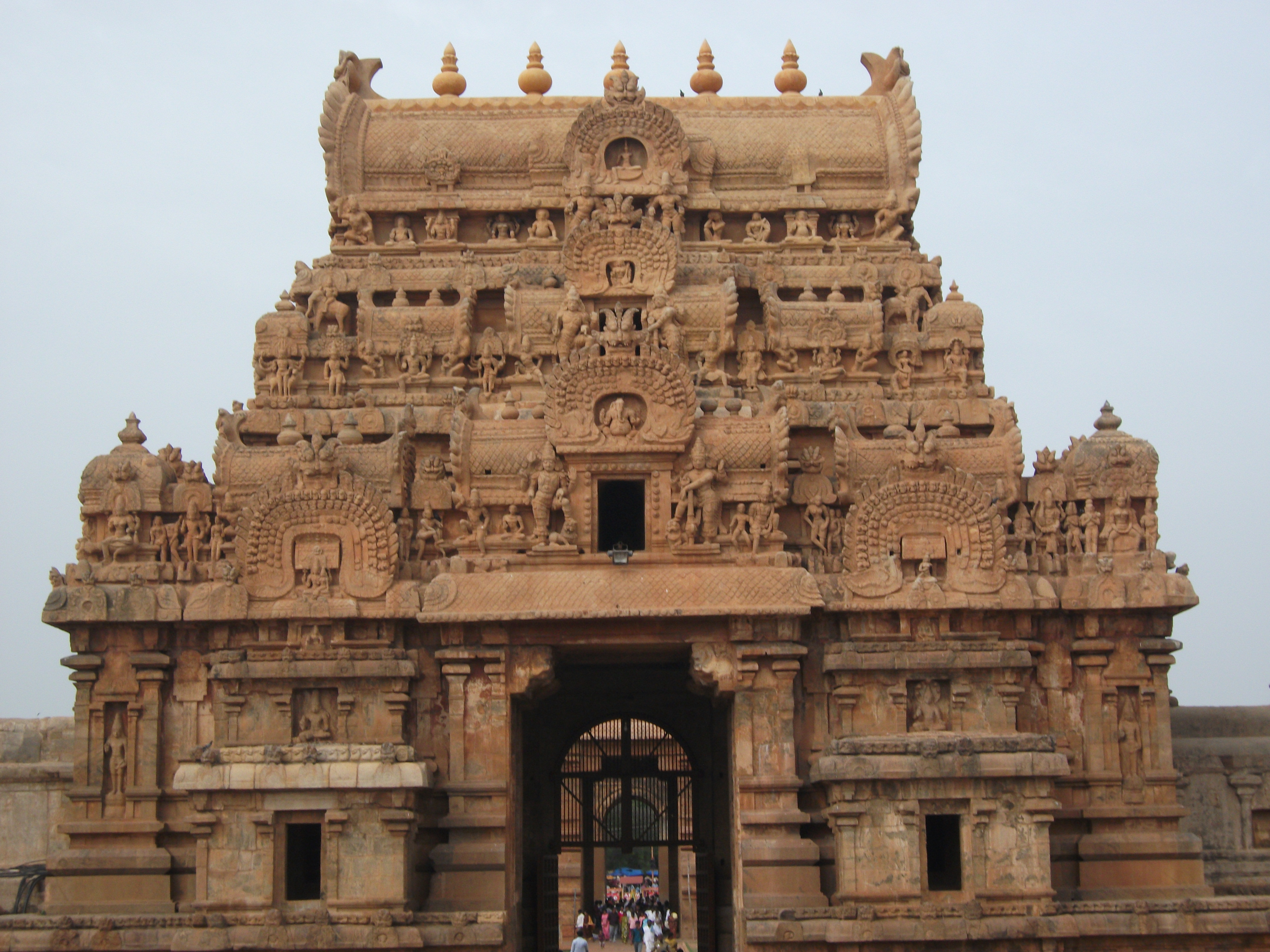 The Peruvudaiyar Koyil (Tamil: பெருவுடையார் கோயில், peruvuḍaiyār kōyil ), also known as Brihadeeswarar Temple and Rajarajeswaram, at Thanjavur in the Indian state of Tamil Nadu, is a Hindu temple dedicated to Shiva and a brilliant example of the major heights achieved by Cholas in Tamil architecture. It is a tribute and a reflection of the power of its patron Raja Raja Chola I. It remains India's largest temple and is one of the greatest glories of Indian architecture. The temple is part of the UNESCO World Heritage Site "Great Living Chola Temples". Built in 1010 AD by Raja Raja Chola in Thanjavur, Brihadeeswarar Temple, also popularly known as the ‘Big Temple', turned 1000 years old in 2010